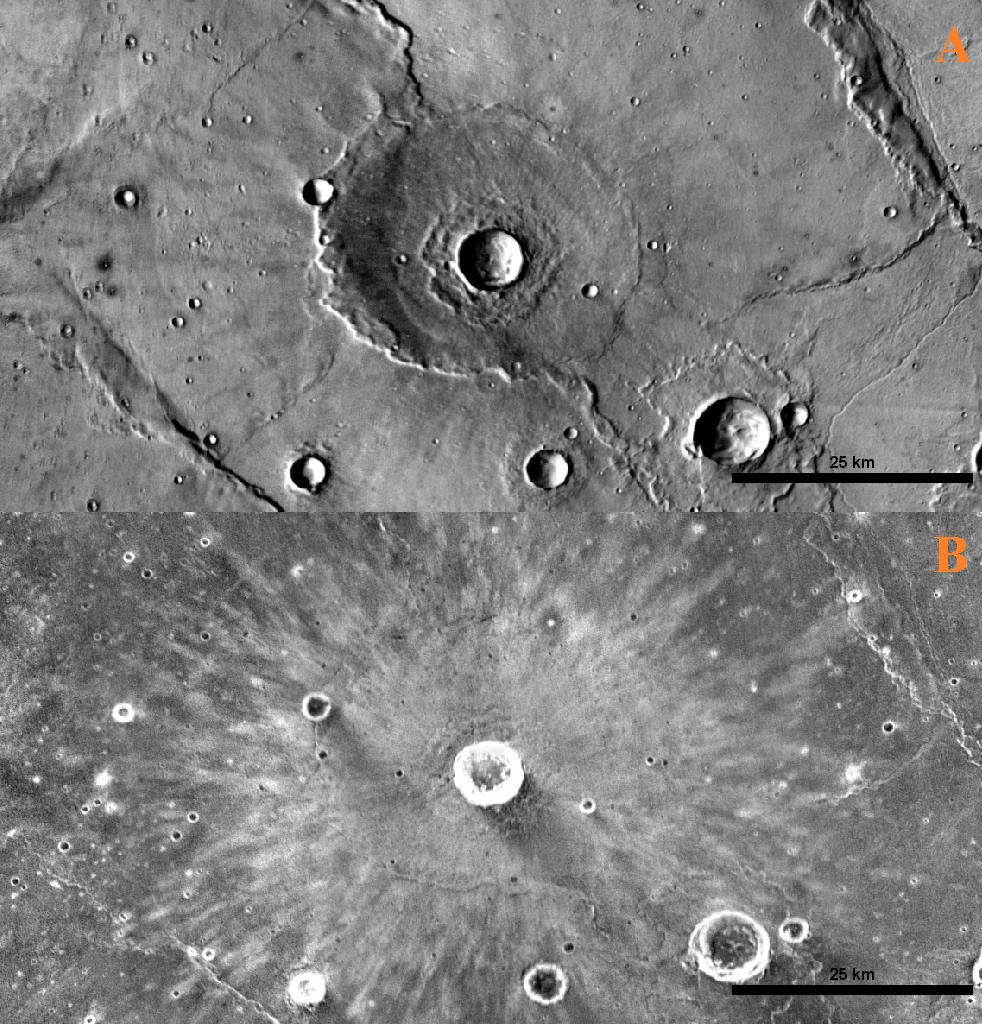 [A] Bam crater as observed in the day by the Infrared band of the THEMIS instrument (Thermal Emission Imaging System), aboard NASA's 2001 Mars Odyssey satellite. This view is similar to how the crater would seem to the human eye.[B] Bam crater observed at night via the infrared band of THEMIS.